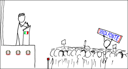 xkcd webcomic 285 entitled "Wikipedian Protestor". Note that this image was originally meant to be displayed with the tooltip "SEMI-PROTECT THE CONSTITUTION".